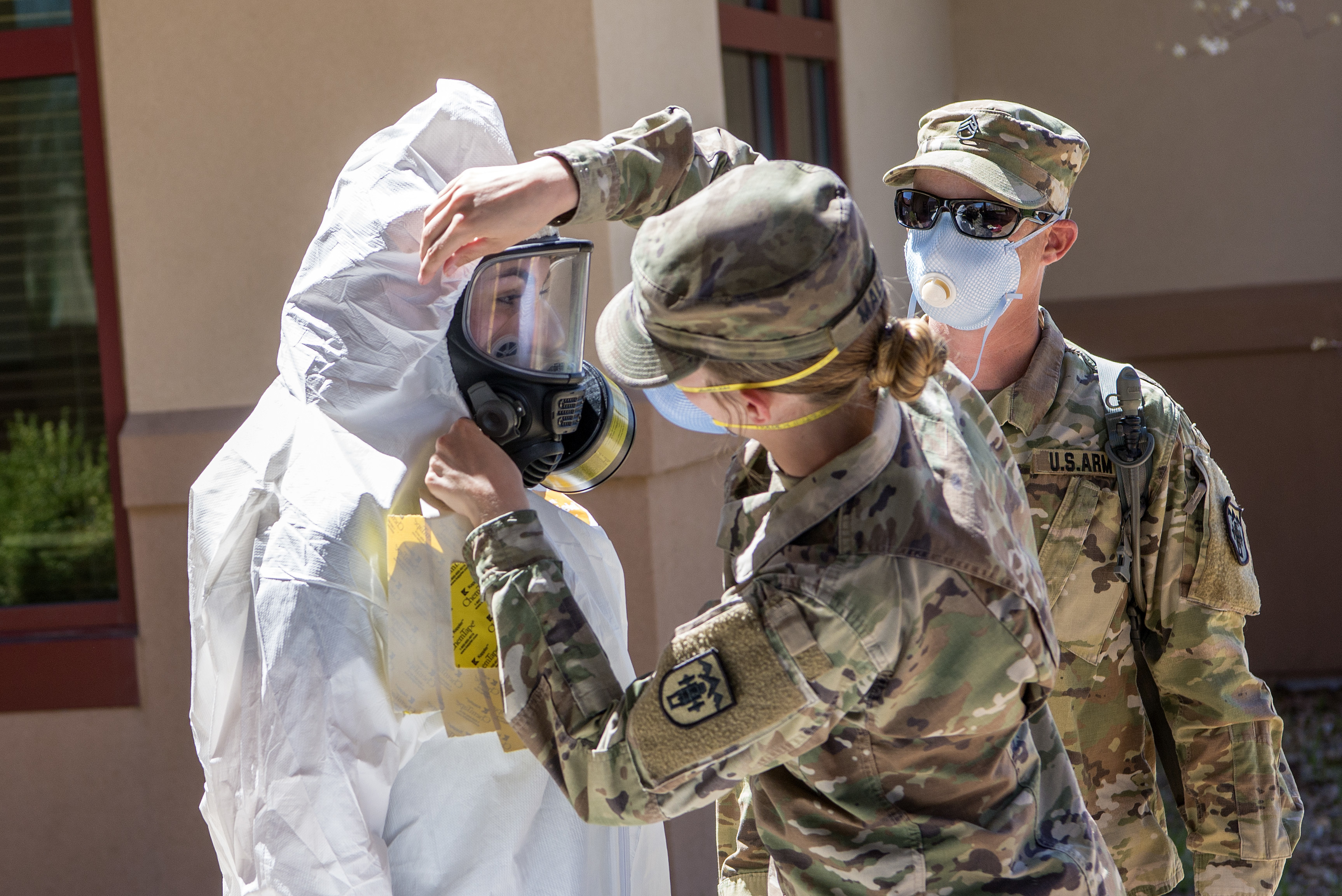 Colorado National Guard members of the Chemical, Biological, Radiological, Nuclear and high-yield (CBRNE) Enhanced Response Force Package (CERFP) team member, processes through the decontamination station after performing COVID-19 testing at a state veterans home in Aurora, Colorado, April 29, 2020. At the direction of Governor Jared Polis, the Colorado CERFP is assisting the state emergency operations center and Colorado Department of Public Health and Environment increase testing procedures and enabling state and local officials with an increased capability where needed. (U.S. Air National Guard photo by Senior Master Sgt. John Rohrer)